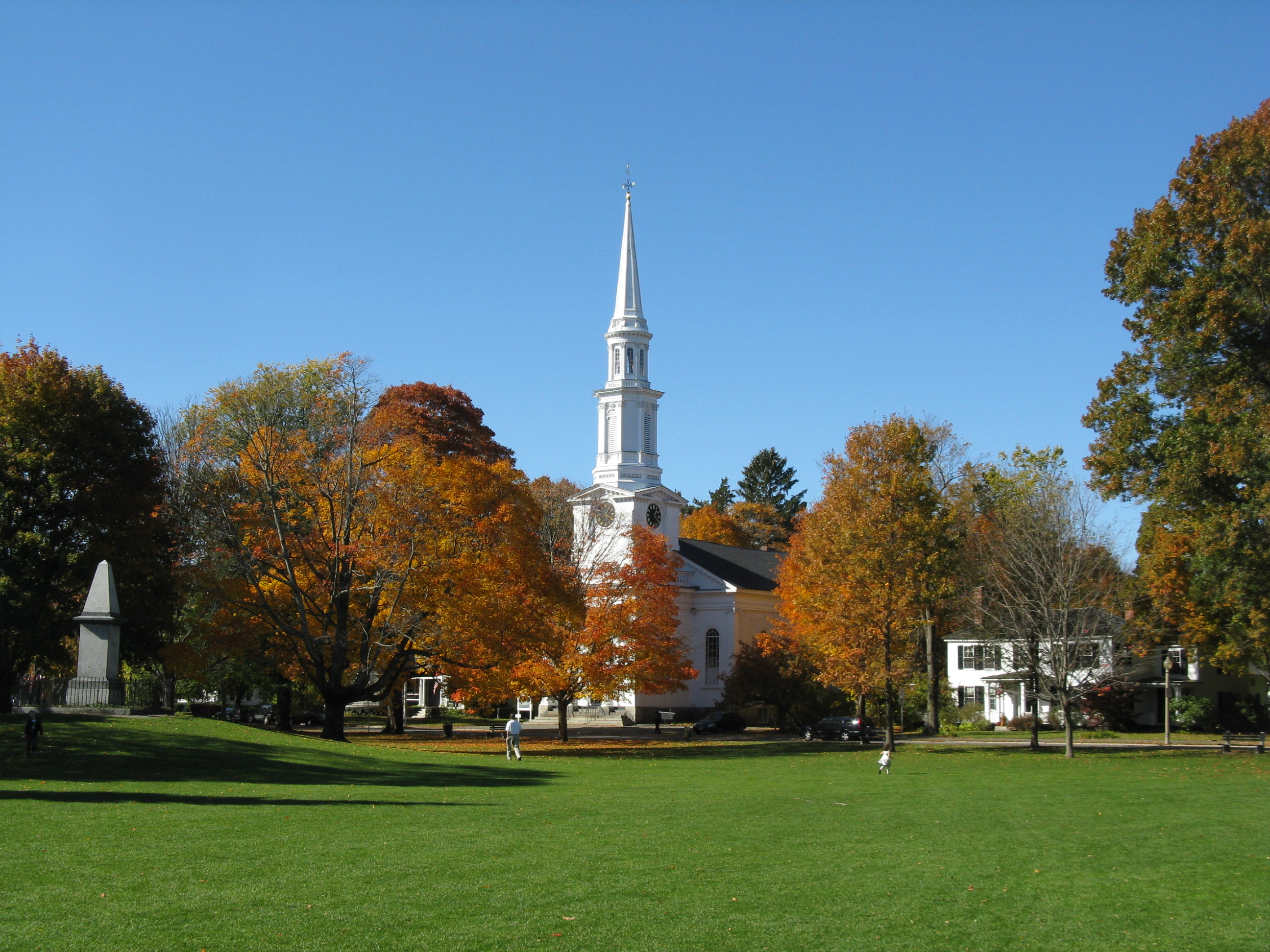 Lexington Battle Green, Lexington Massachusetts